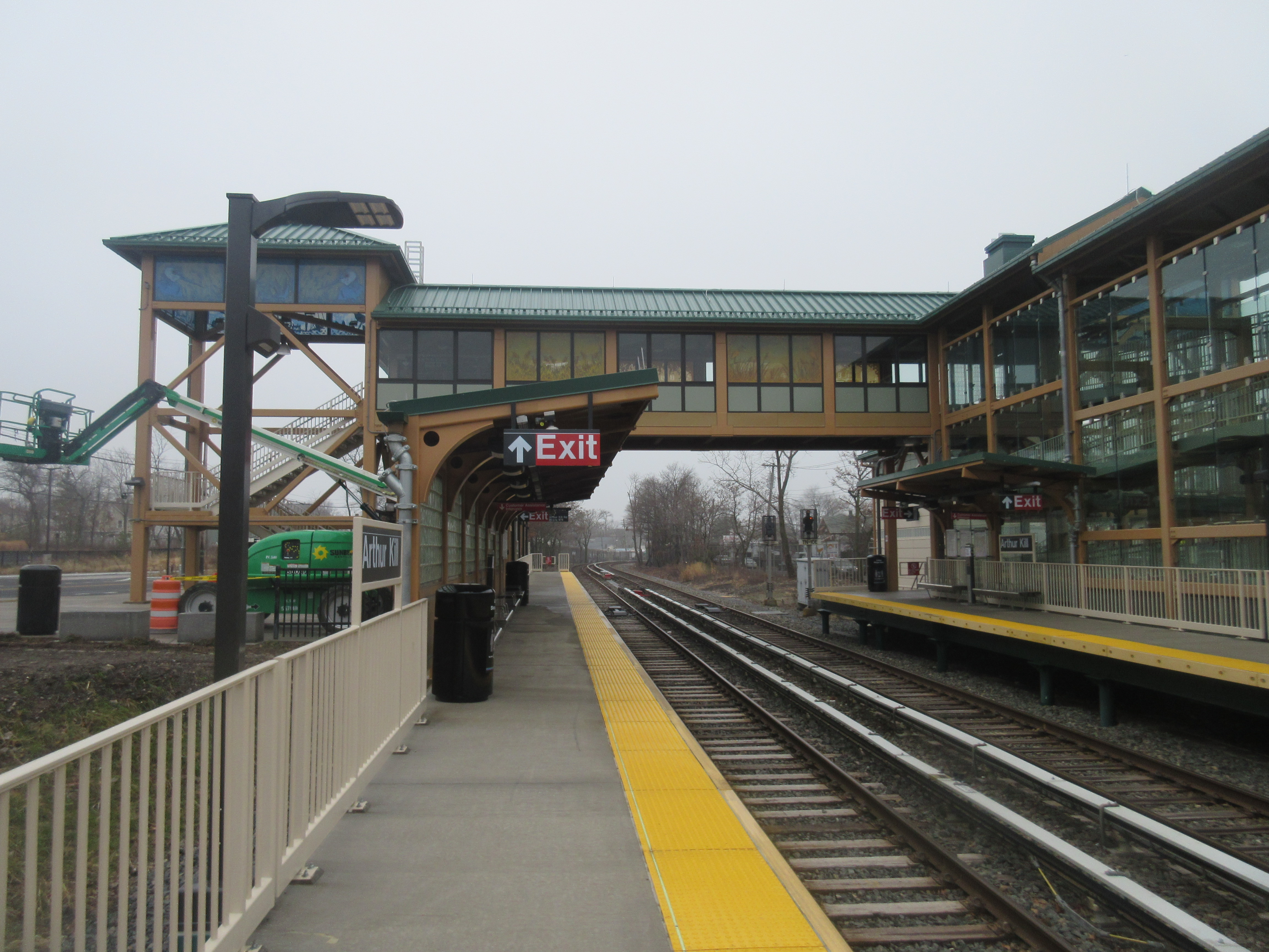 This is a view of the overpass at Arthur Kill from the northbound platform.